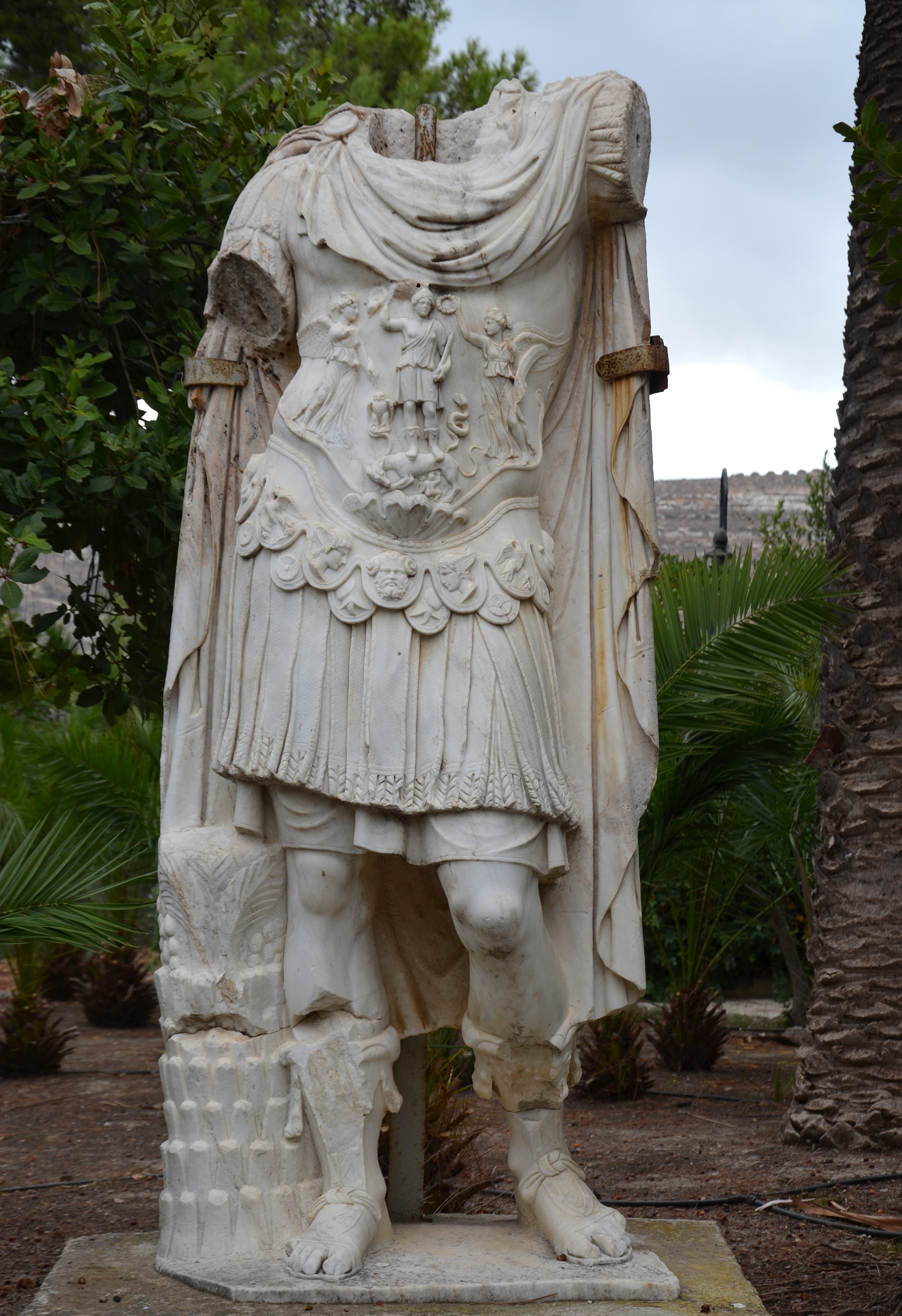 Headless statue of Hadrian, he is shown as a triumphant army commander with a cuirass, found in Knossos Villa of Dionysos, peristyle house of the Roman period, Villa Ariadne, Knossos